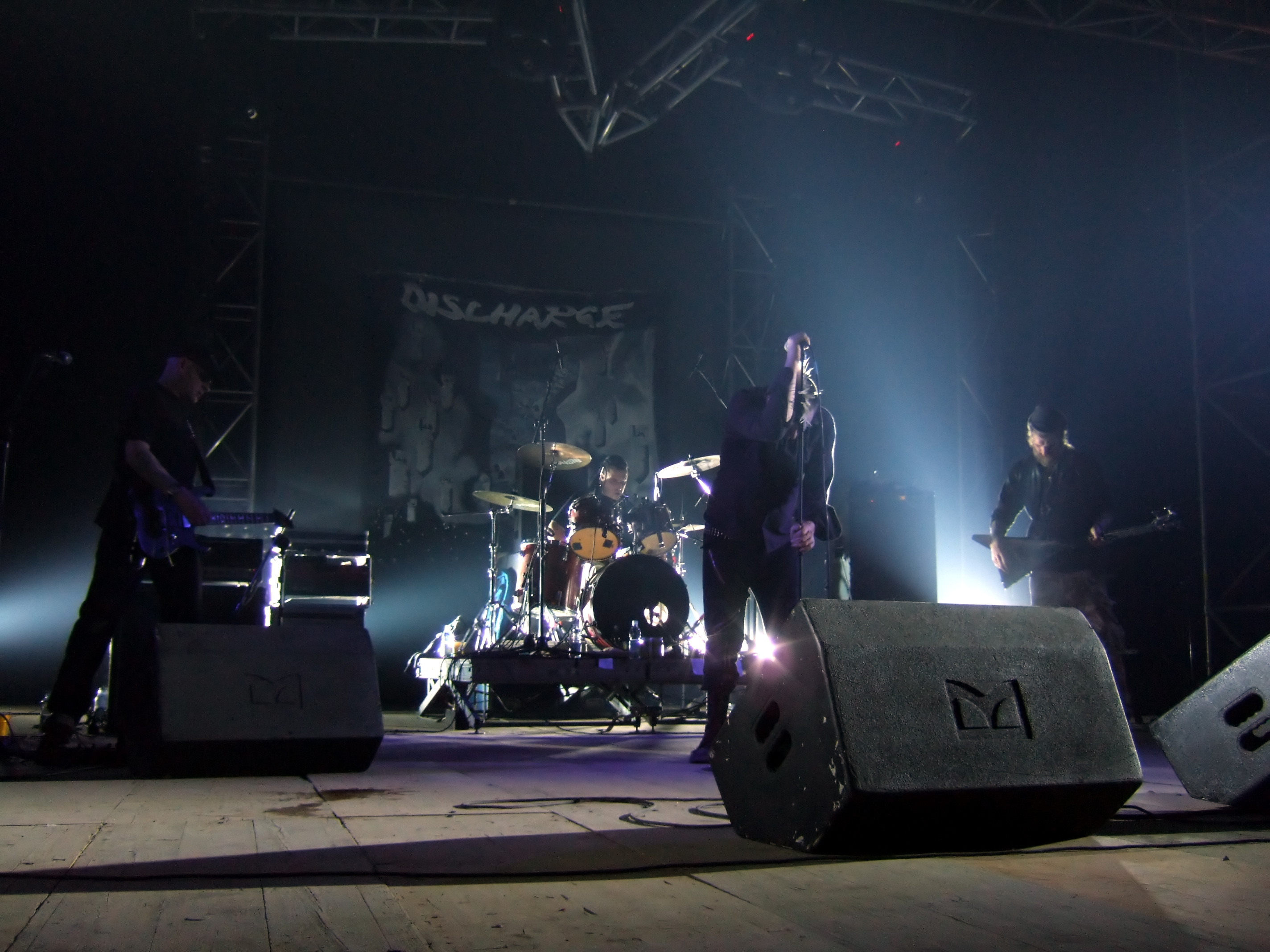 Discharge live in Rome.